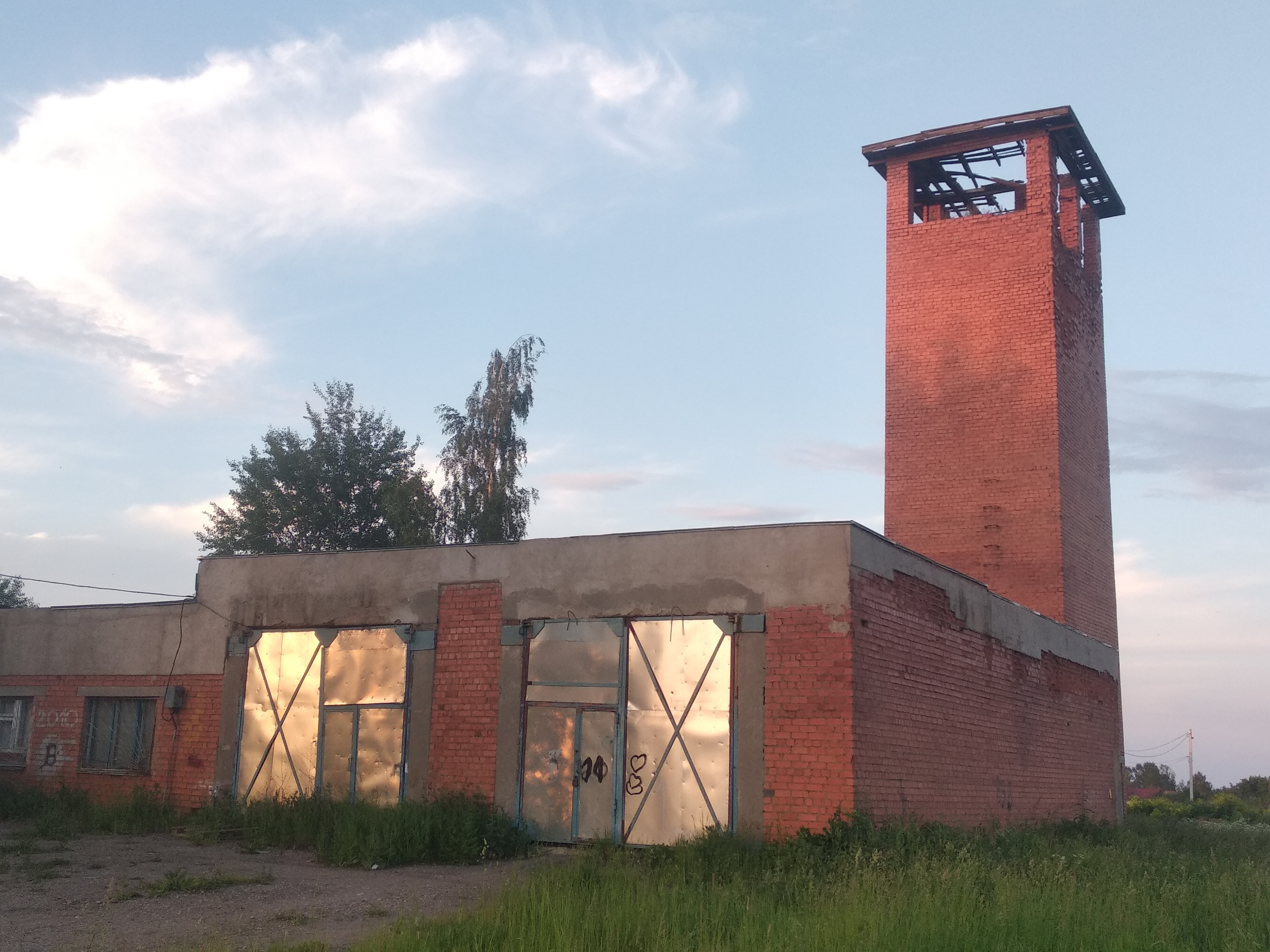 Fire tower in Shurskol village, Russia